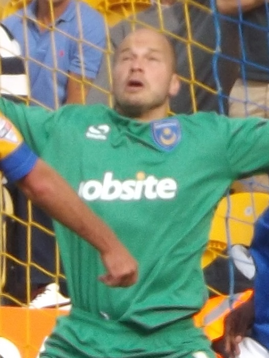 Phil Smith. Image cropped from original at flickr.